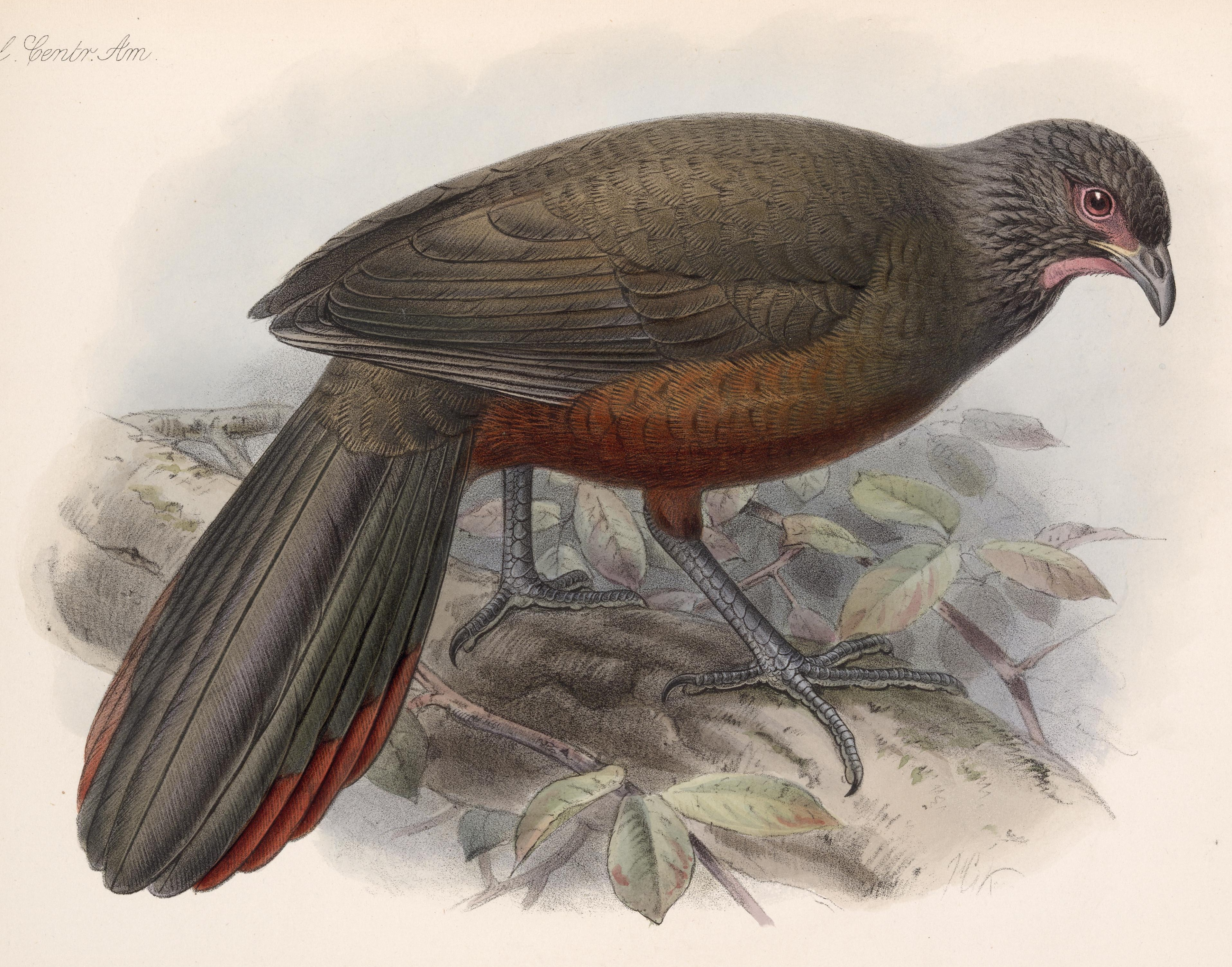 « Ortalis wagleri » = Ortalis wagleri (Rufous-bellied Chachalaca)